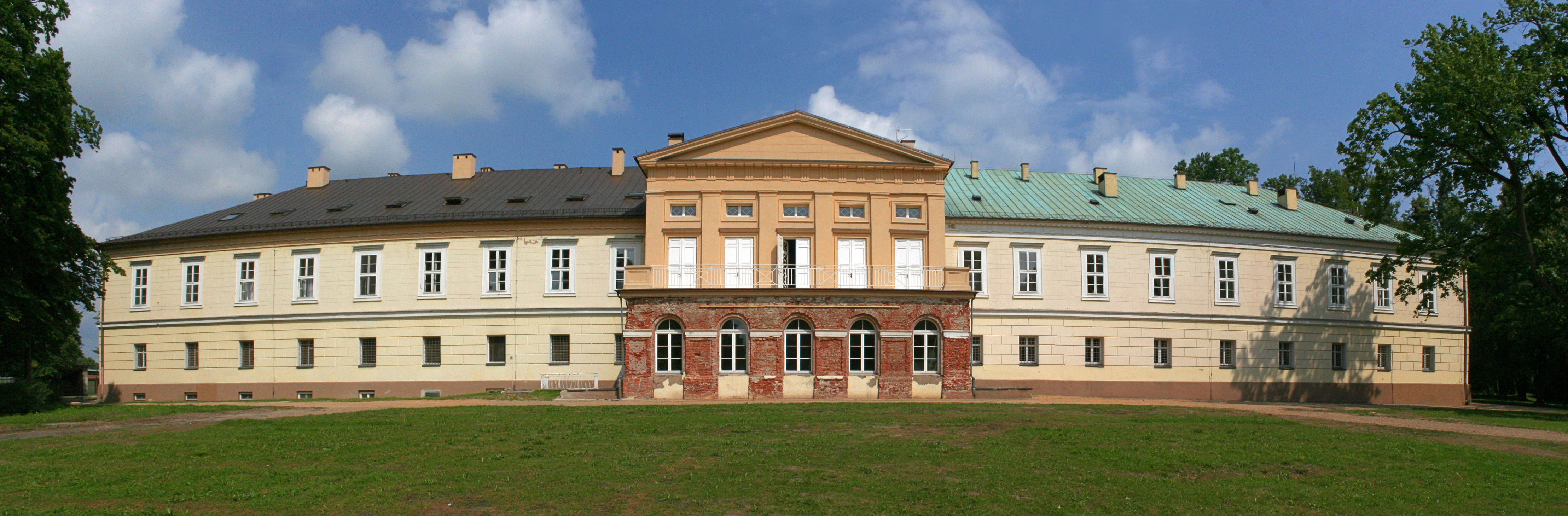 Palace in Koszęcin.